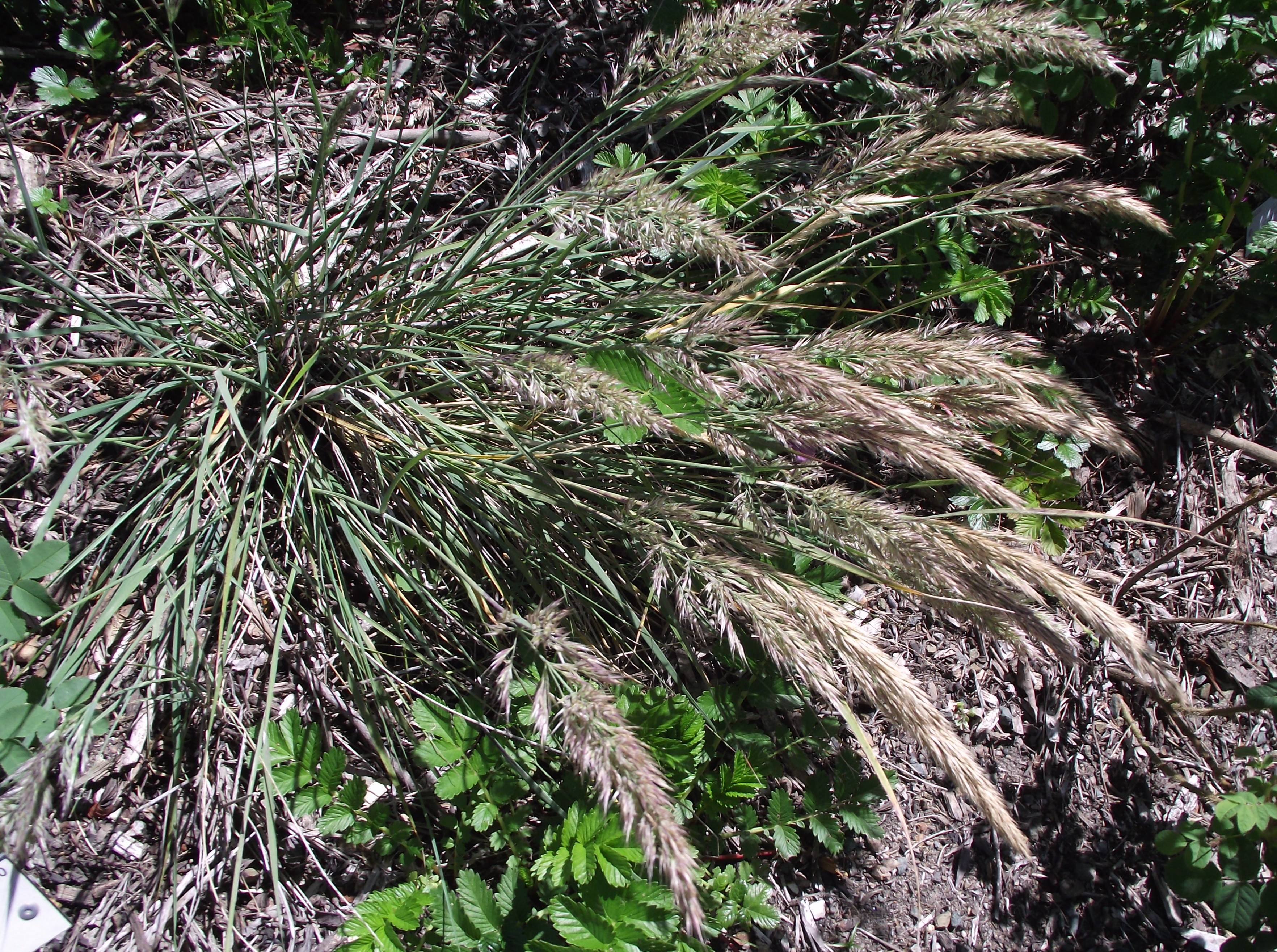 Calamagrostis foliosa at the UC Botanical Garden, Berkeley, California, USA. Identified by sign.